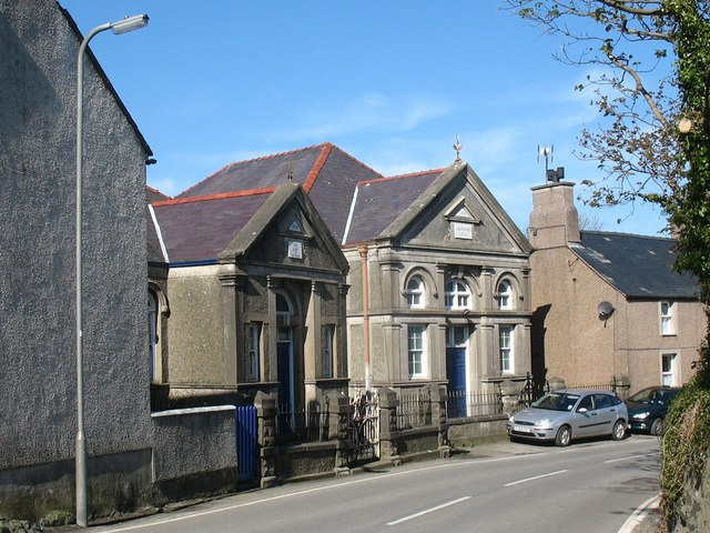 Capel Libanus Chapel The Calvinist Libanus Chapel complex (the name "Libanus" is Welsh for Lebanon) consists, from left to right, of the chapel house, the vestry and the main chapel. The present chapel dates from 1903. Calvinistic Methodism in the area however dates back to 1815 and with the ultra-Calvinist and High Tory, John Elias as its minister ( his wife, Elizabeth Broadhead from Cemlyn, also kept a shop on the square at Llanfechell) the village soon became a hot bed of Calvinism and teetotalism. Following Elizabeth's death and his remarriage to the Dowager Lady Bulkeley in 1839, John Elias moved from the village to live at Llangefni.